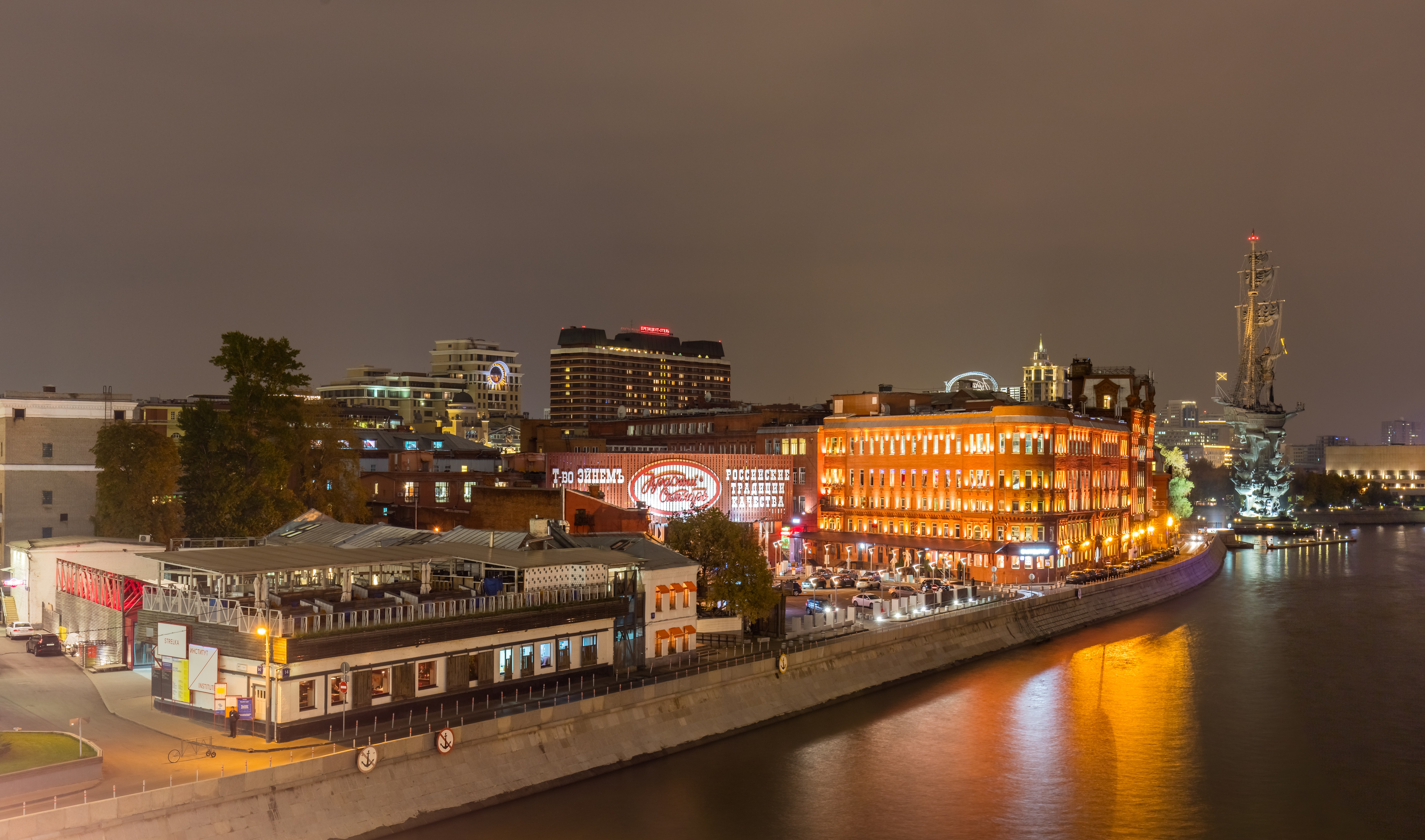 Bersenevskaya Embankment, Moscow, Russia